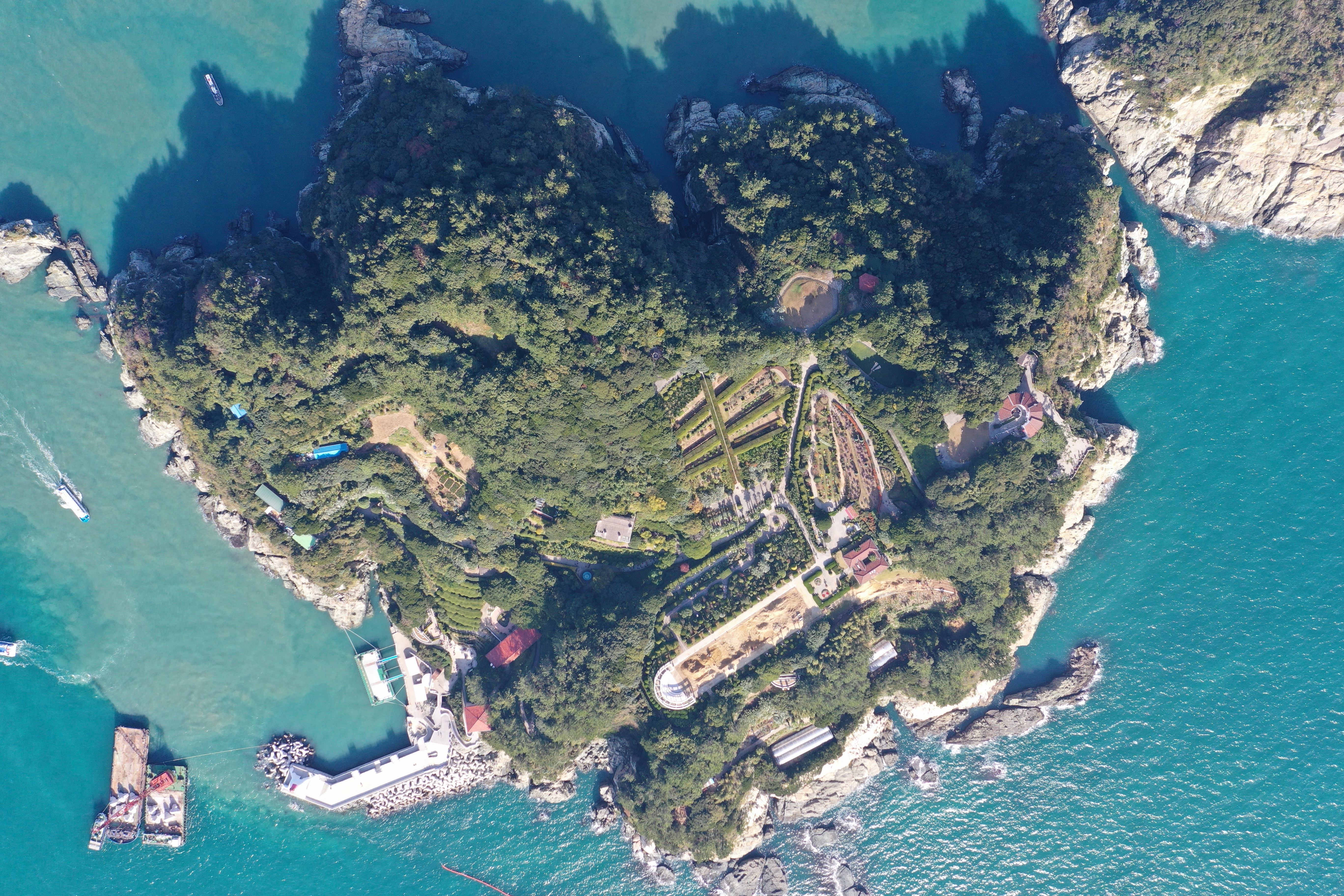 Aerial View of Oedo Island (Botania Garden)